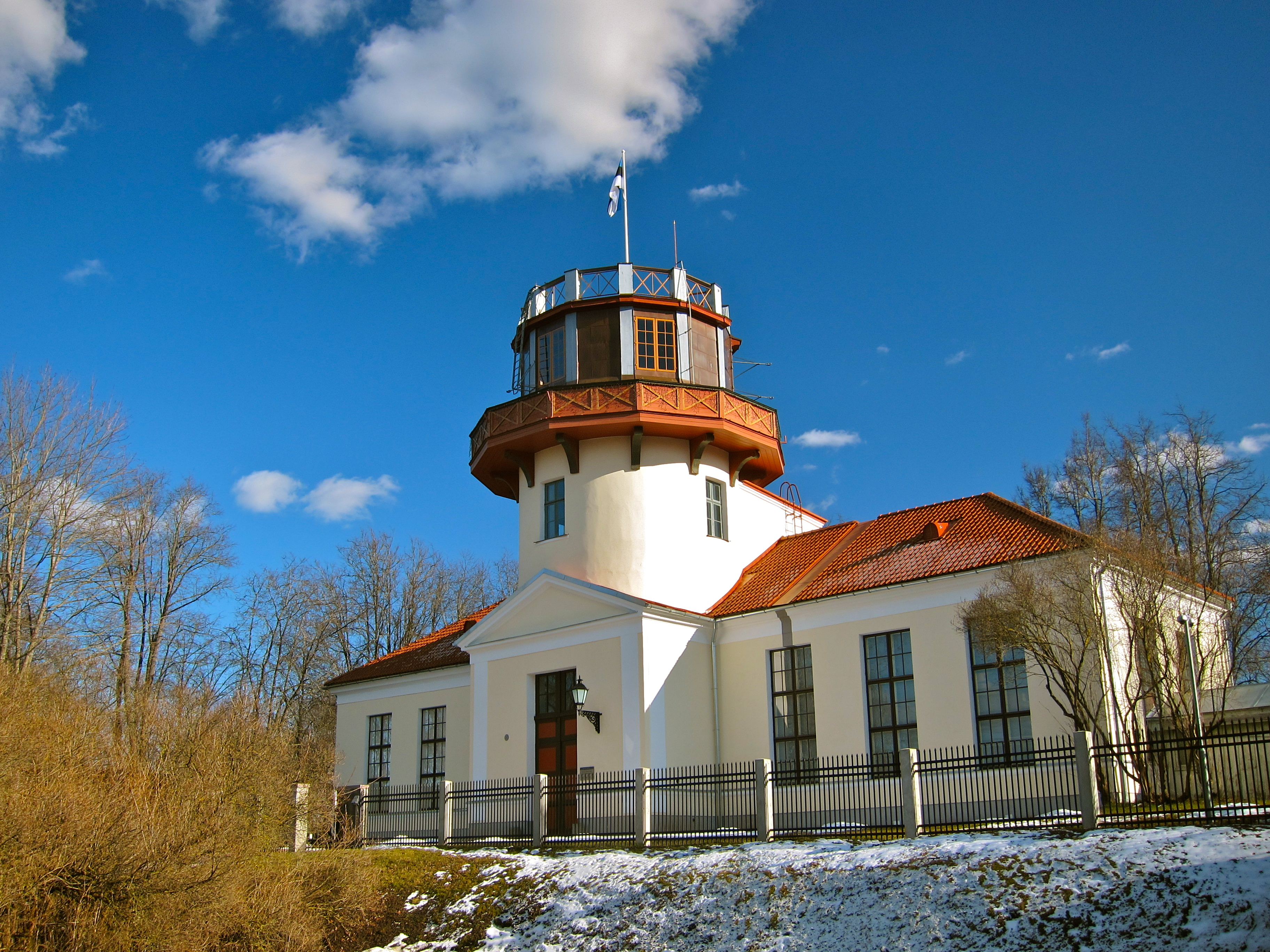 The Old Observatory of Tartu, Estonia, April 2012